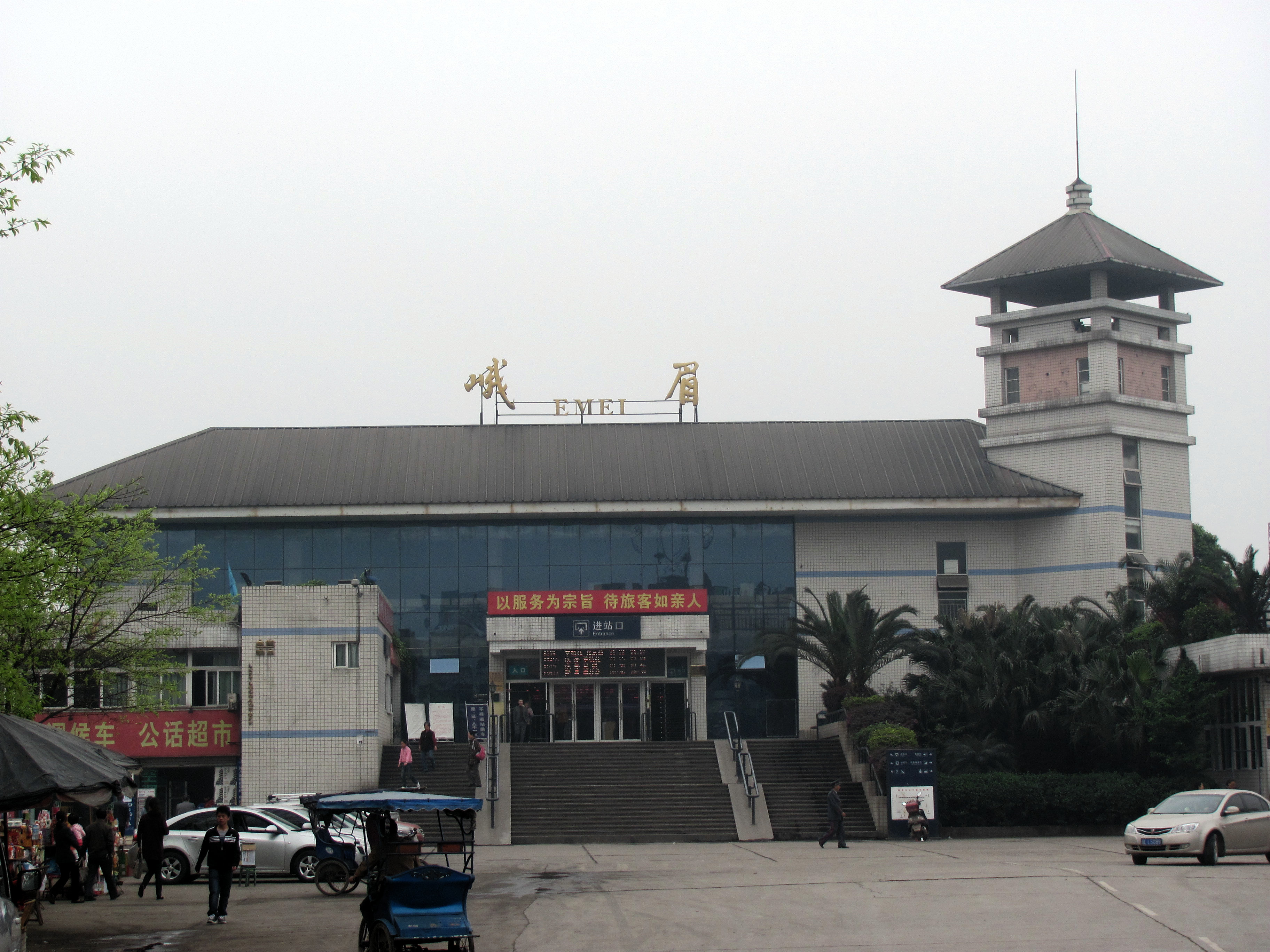 E'mei Railway Station Unknown